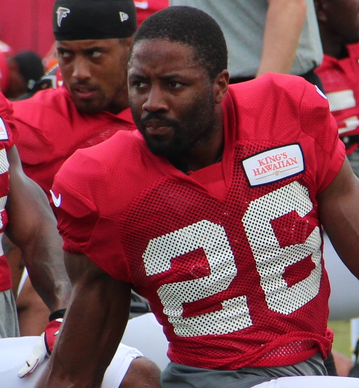 Josh Wilson at Falcons training camp, 2014